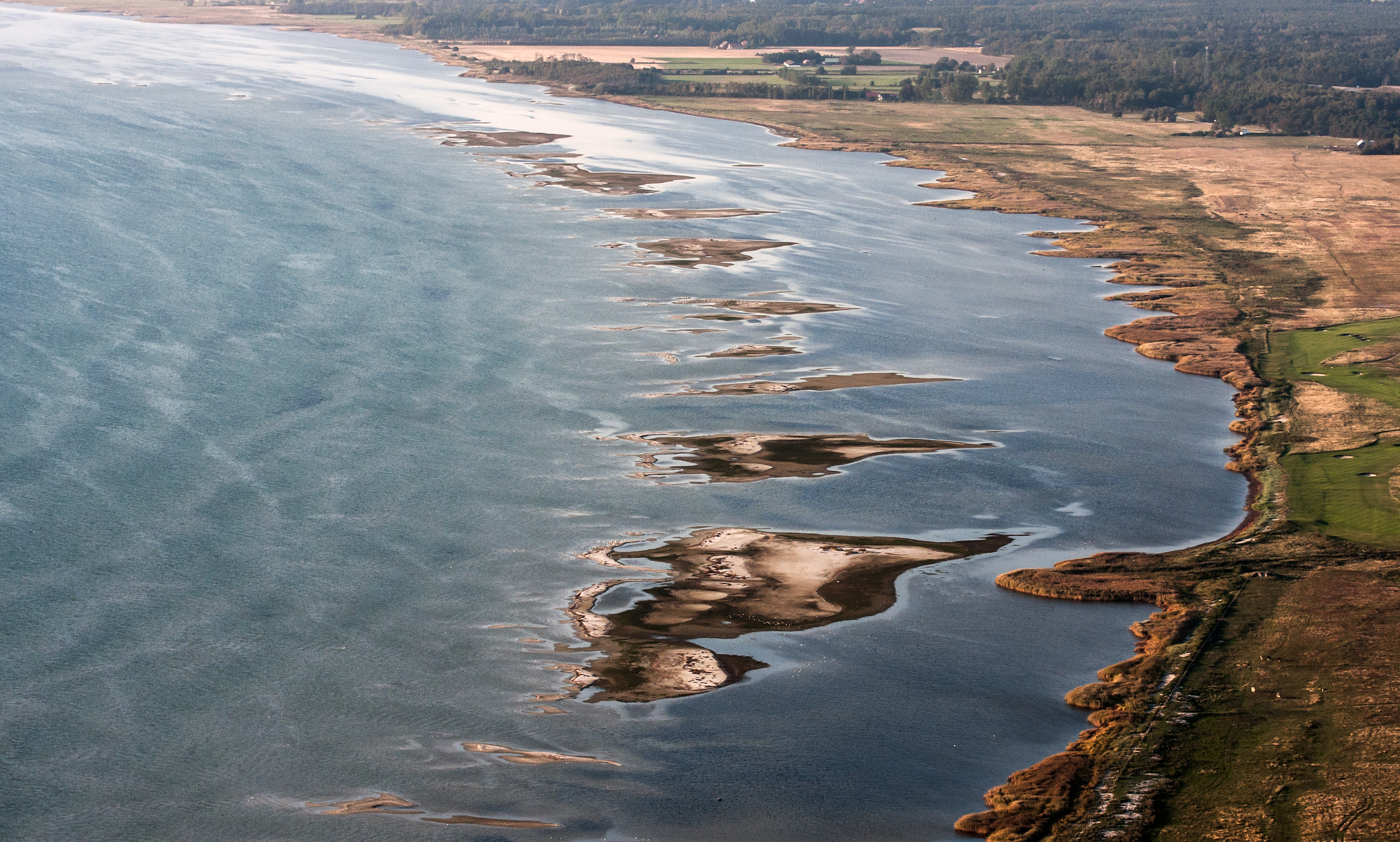 Lundåkrabukten, a bay south of Landskrona, Sweden